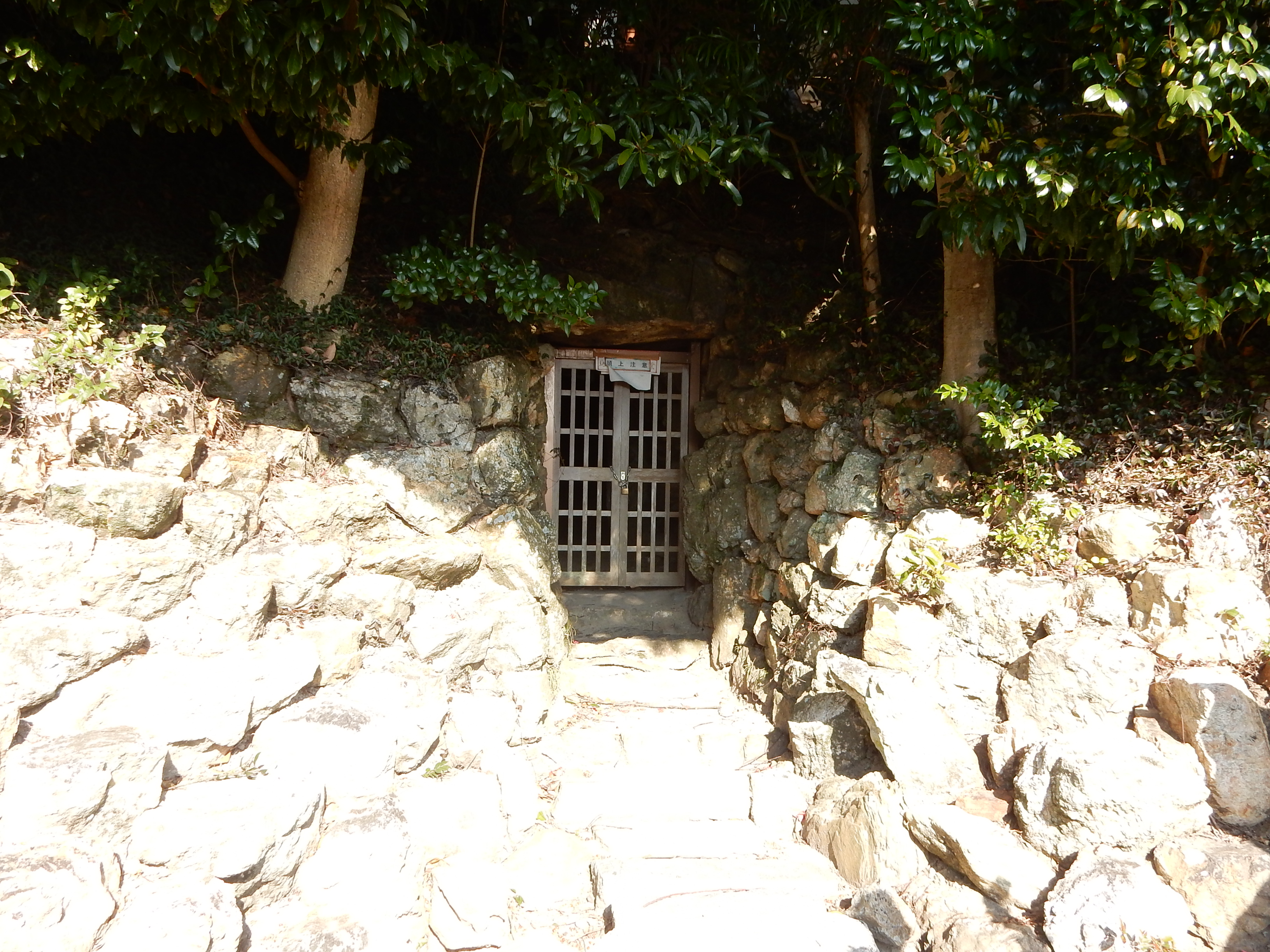 Johoji Kofun (城宝寺古墳), Hieda, tahara-cho, Tahara, Aichi, Japan